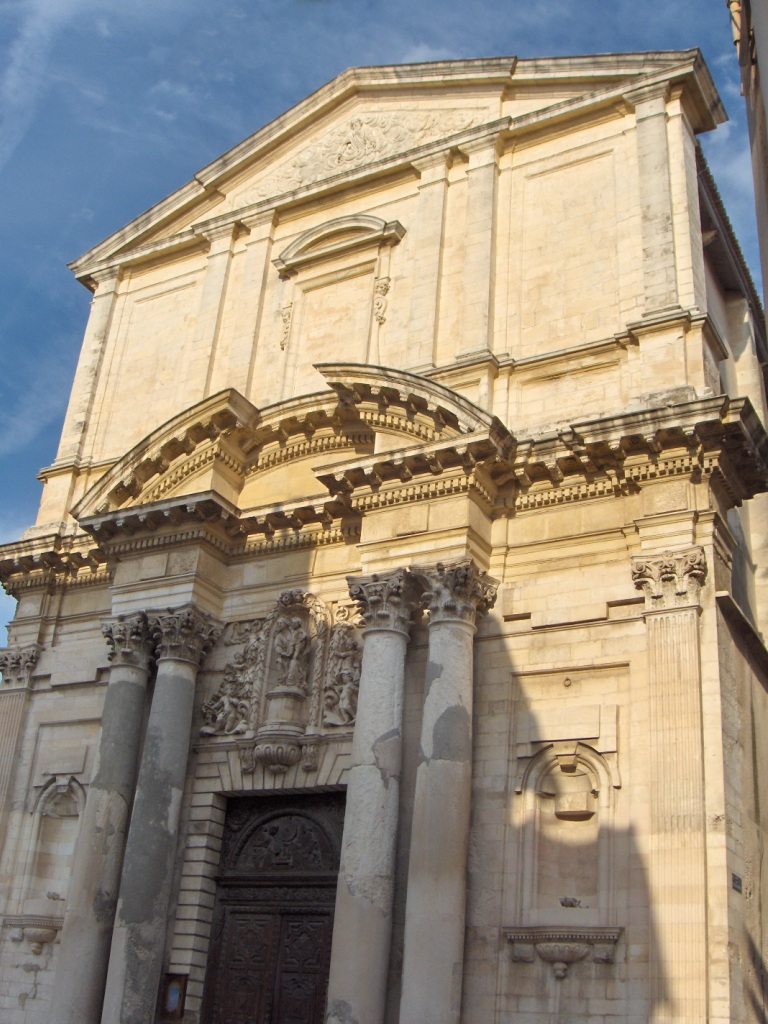 Martigues — Baroque Facade of the church Sainte-Madeleine (XVIIth century, district of L'Île)